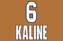 A recreation of how it looks at Comerica